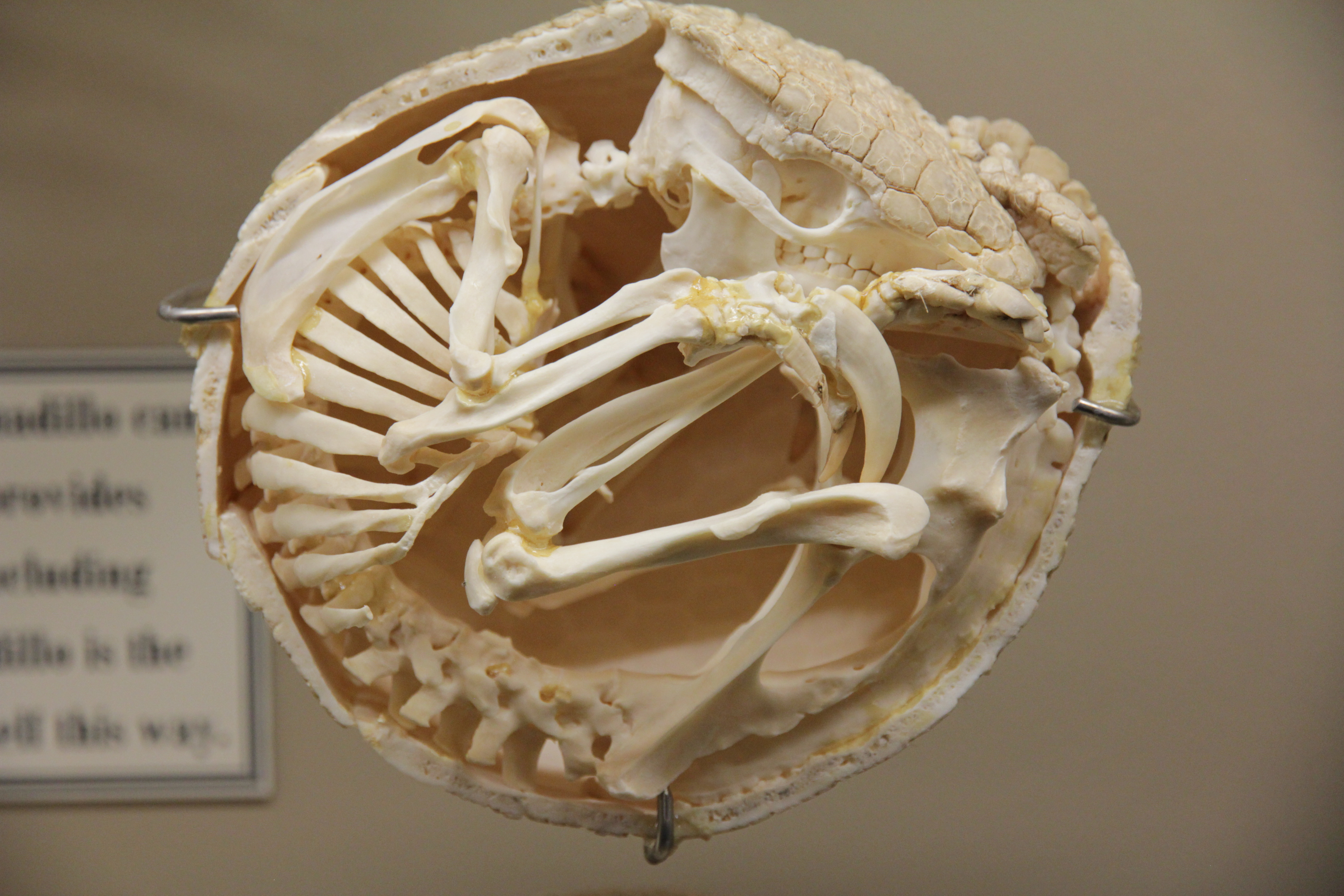 Three banded armadillo skeleton showing protective behavior of rolling in a ball.